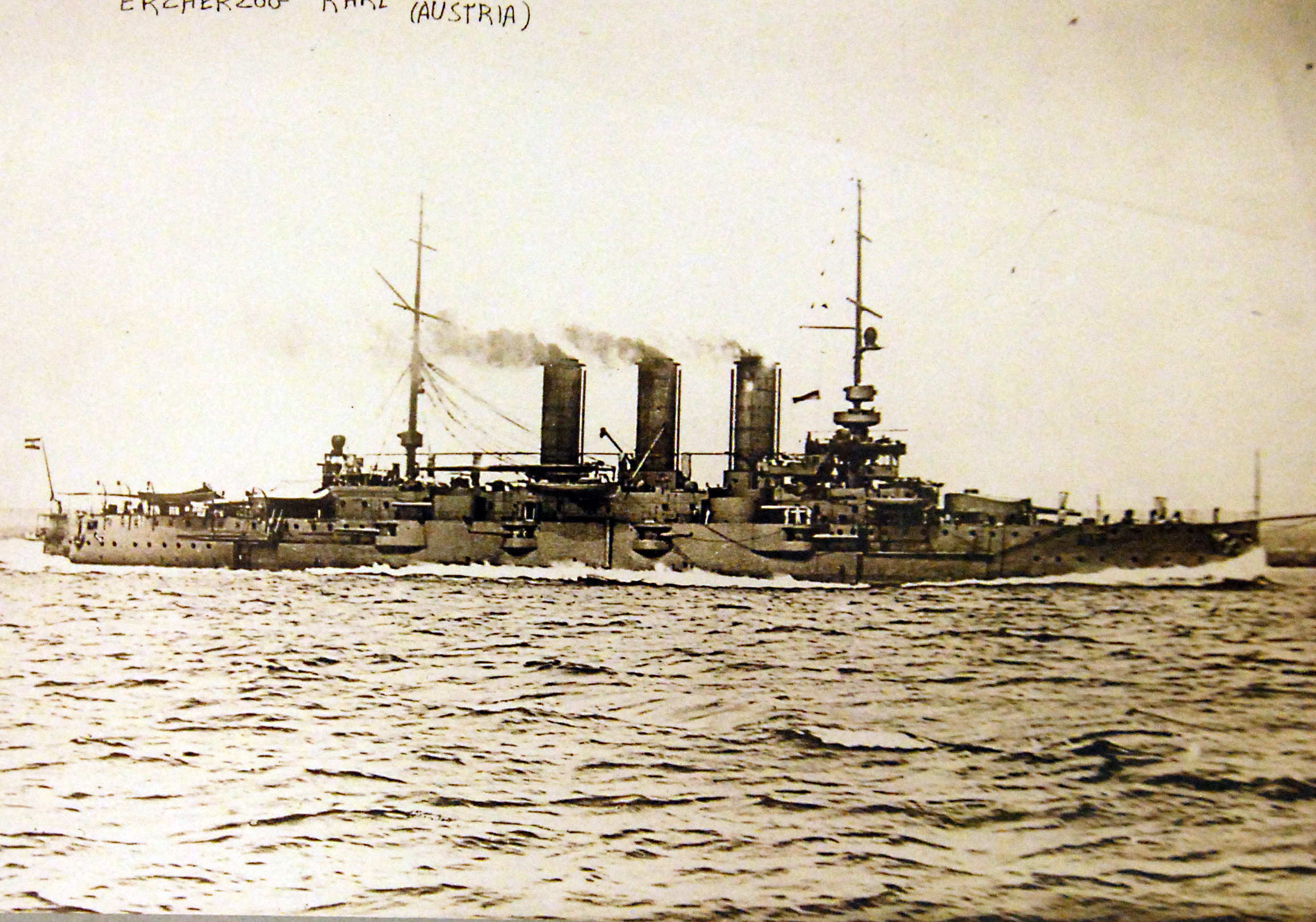 Lot-11271-4: Austrian pre-dreadnought battleships Erzherzog Karl, July 29, 1914. George G. Bain Collection. Courtesy of the Library of Congress. (2016/12/02)